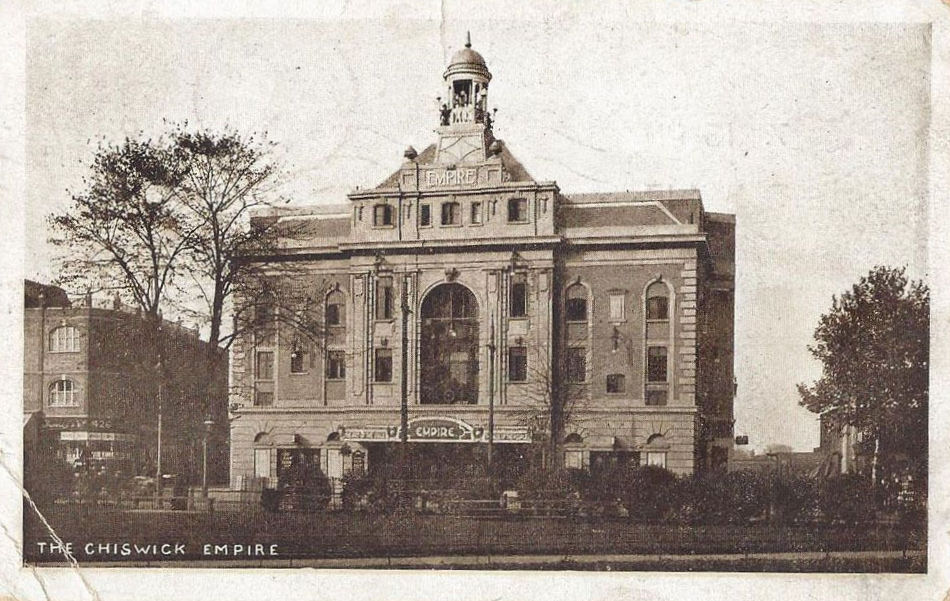 Postally used postcard of 1913 showing the Chiswick Empire